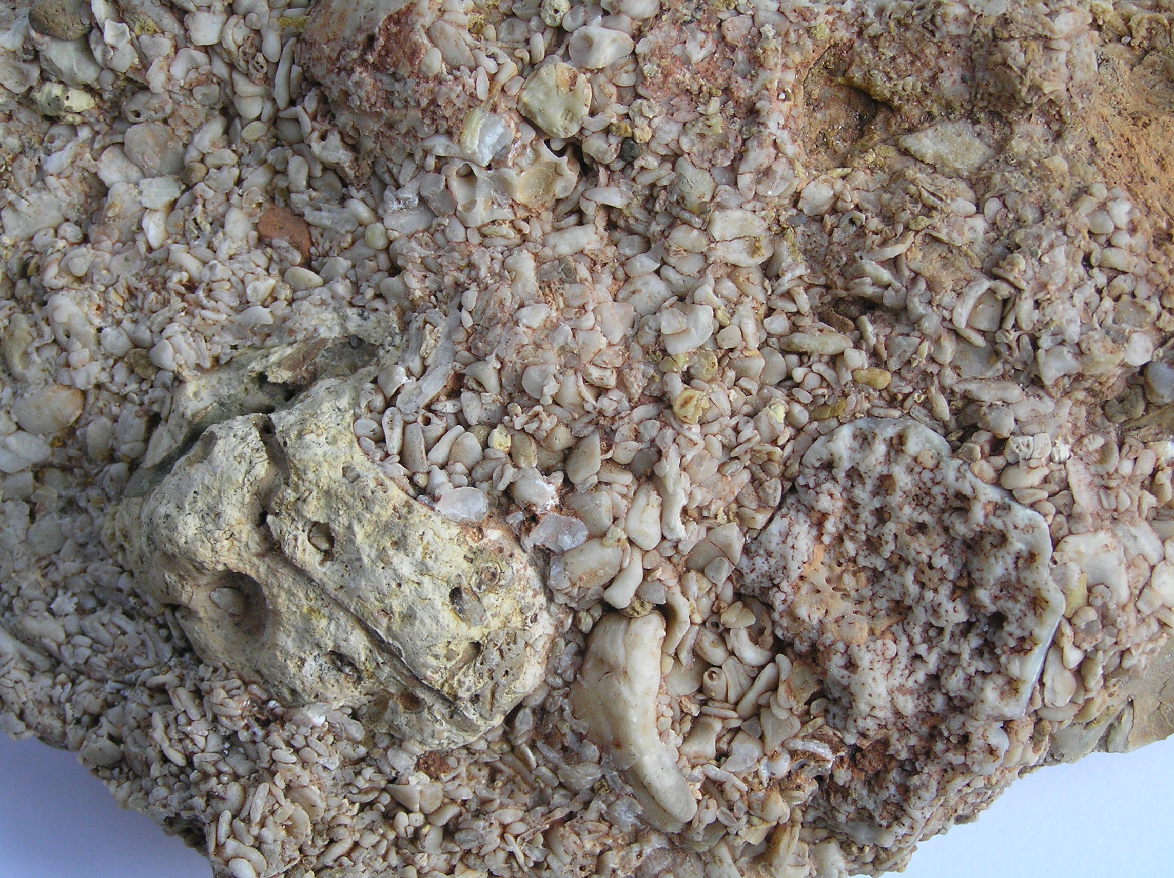 Muschelagglomerat from Tennikerfluh